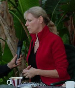 Phyllis Curott in Palermo (Sicily)